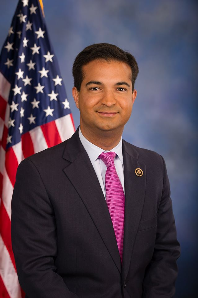 Carlos Curbelo, official portrait 114th Congress.